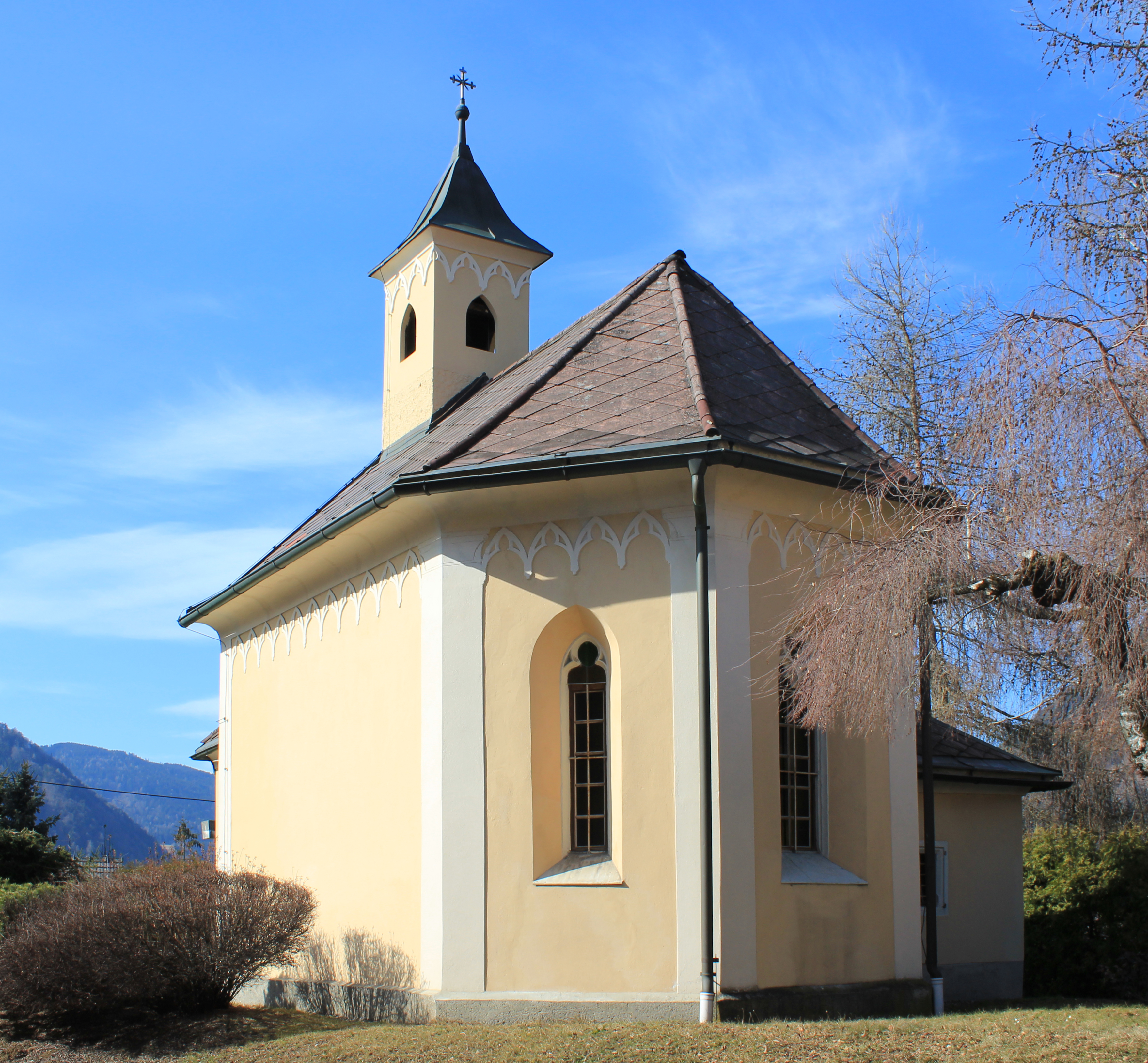 Church of St. Andrä in the community of Villach